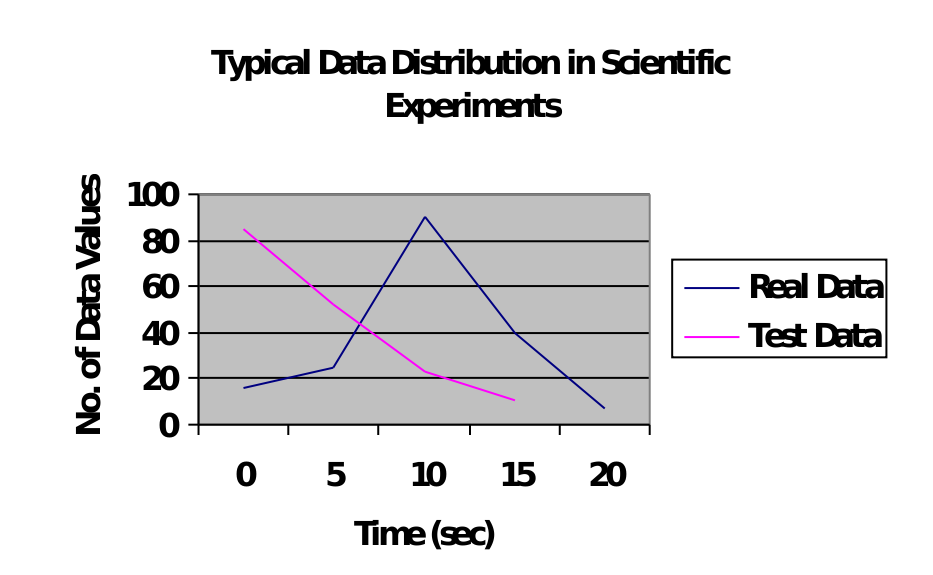 This file is for the use on my article